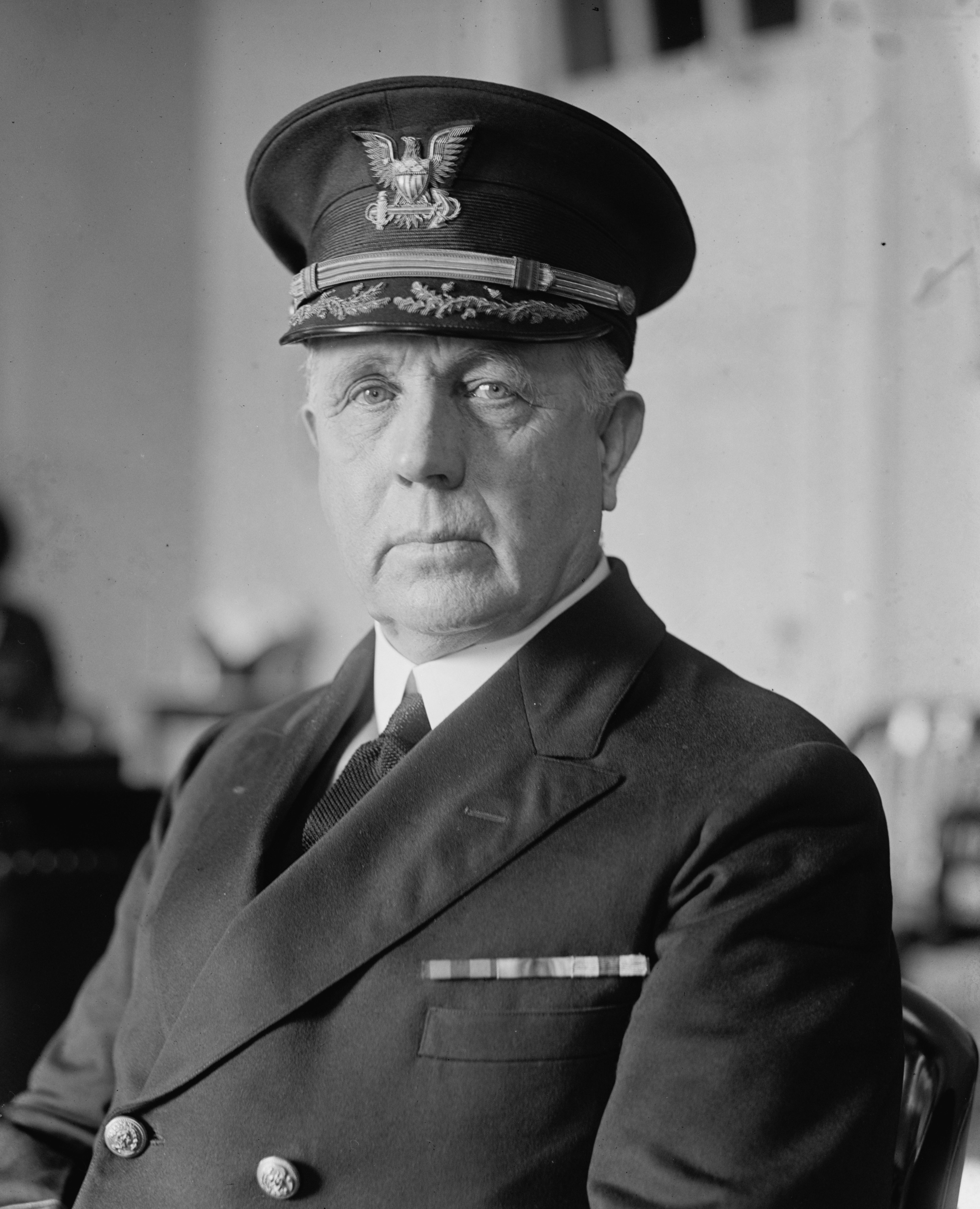 Title: Rear Adm'l. Wm. E. Reynolds, 1/25/23 Abstract/medium: National Photo Company Collection (Library of Congress) Physical description: 1 negative